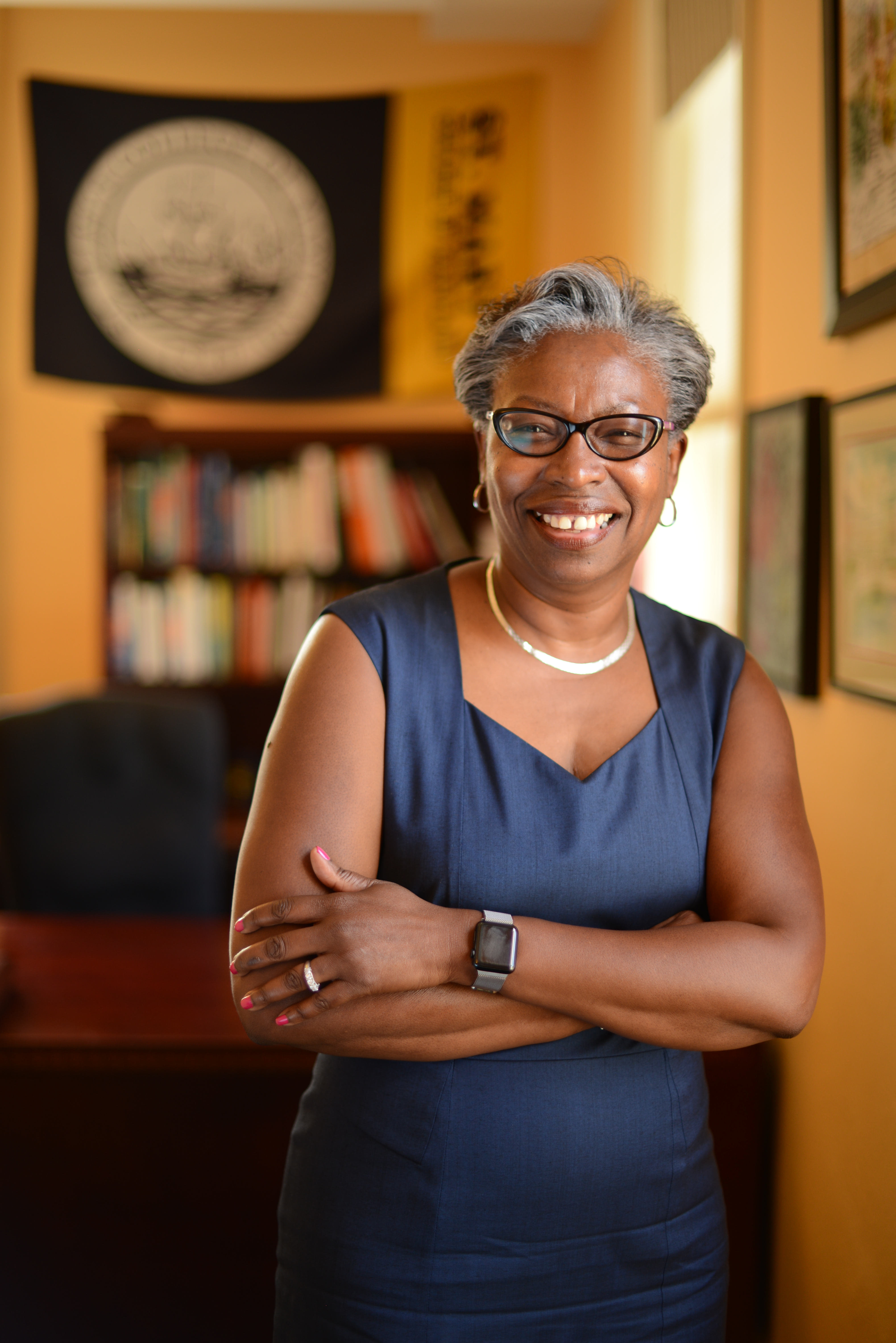 Dr. Jordan in her office on the St. Mary's College of Maryland campus